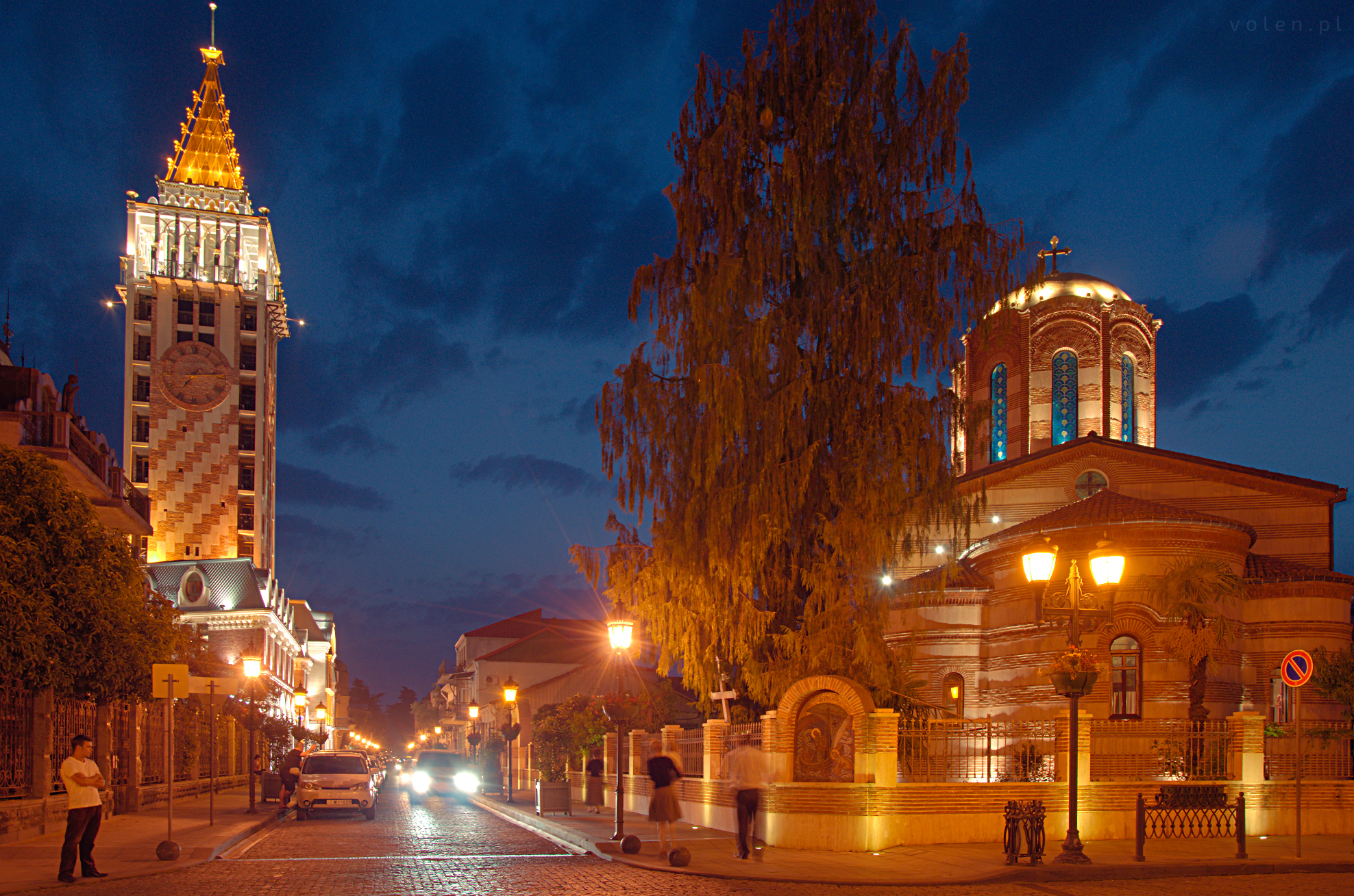 Batumi old town